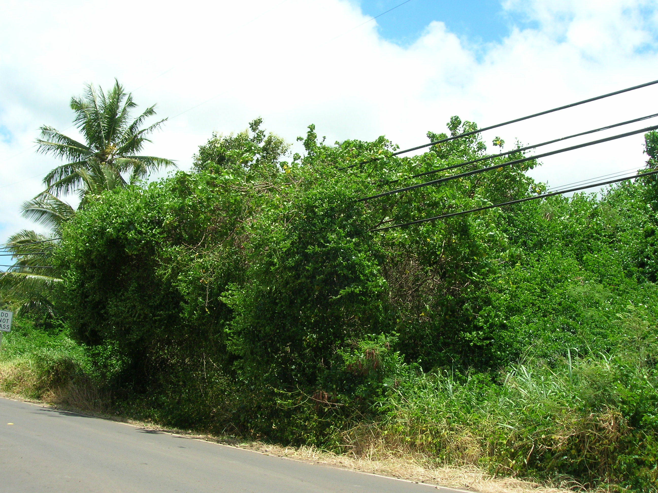 Colubrina asiatica (habit). Location: Molokai, Pukoo